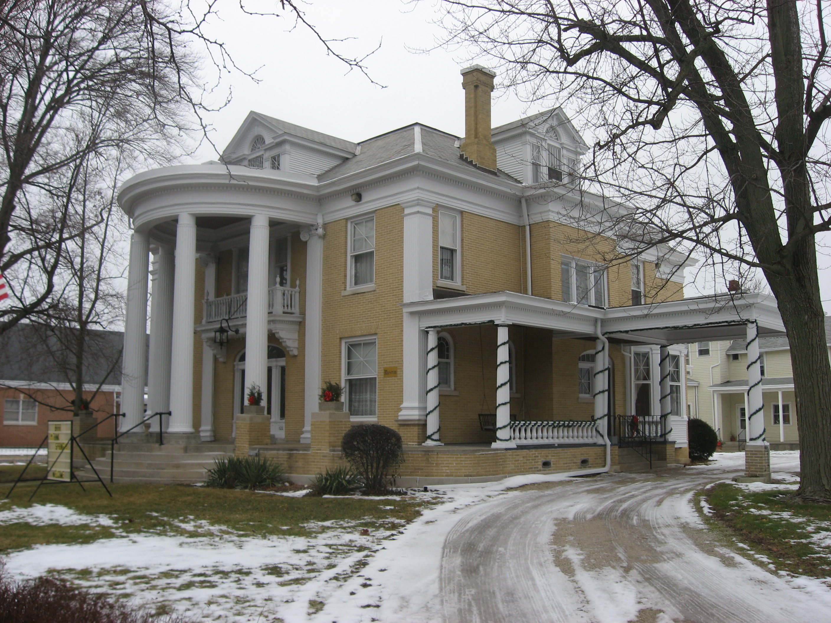 Front and eastern side of the Charles Dugan House, located at 420 W. Monroe Street in Decatur, Indiana, United States. Built in 1902, it is now the home of the Adams County Historic Society, and it is listed on the National Register of Historic Places.